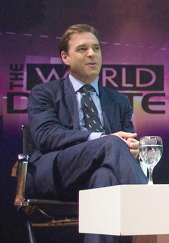 Panelist Economic Historian Niall Ferguson at "Special World Debate"